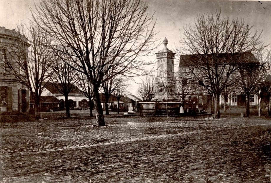 Belgrade, 1876 - V.I. Groman, The City Center Terazije with the drinking fountainCatalog number: ZF, A-B-19